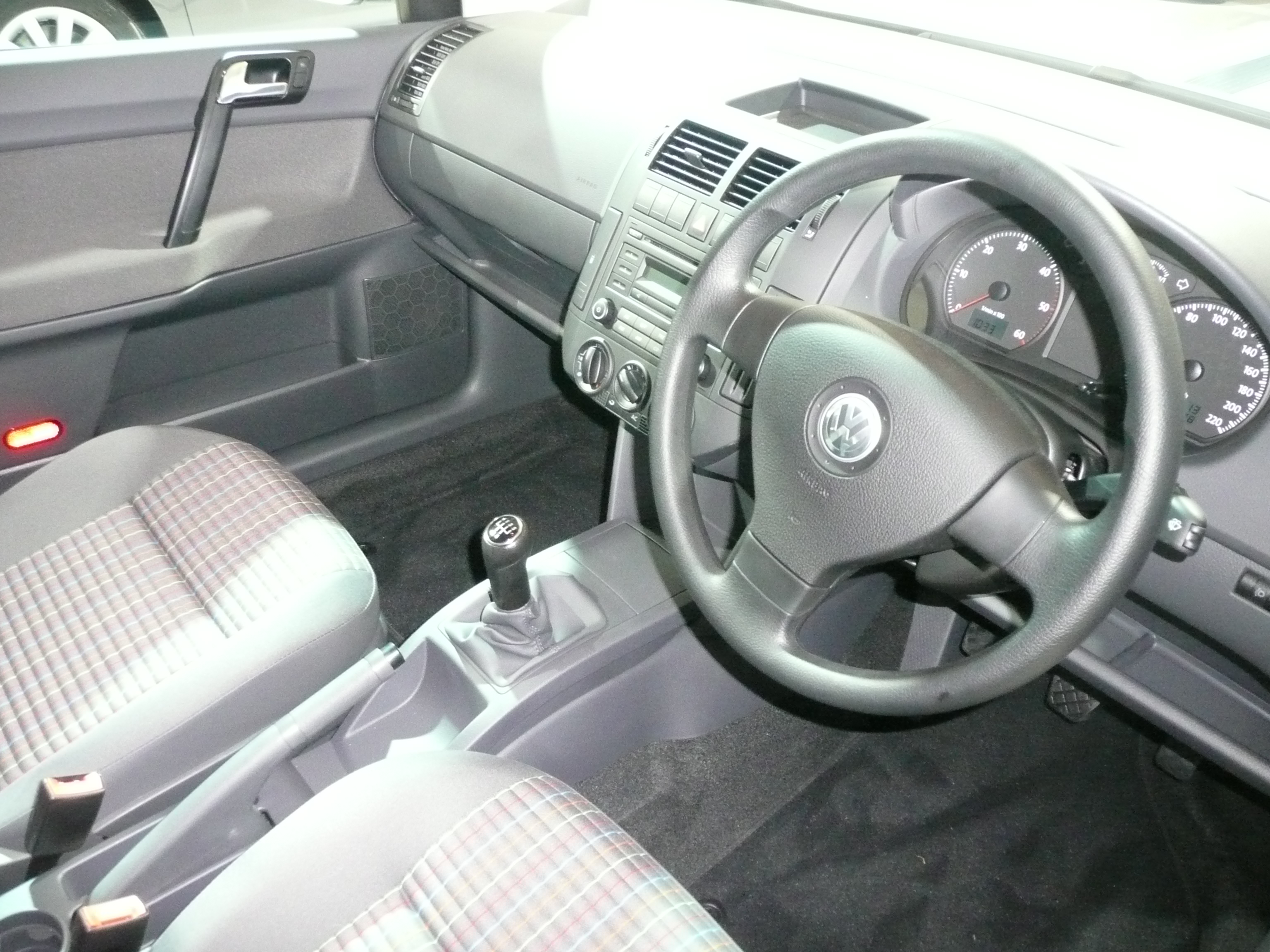 2006–2008 Volkswagen Polo IV BlueMotion 5-door hatchback. Photographed at the 2008 Australian International Motor Show, Sydney, New South Wales, Australia.